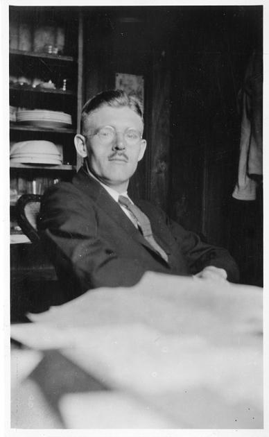 Ralph Erskine Cleland (1892-1971) was Professor in Department of Botany, Indiana University, where his research focused on Oenothera; he was President of Botanical Society of America in 1947.